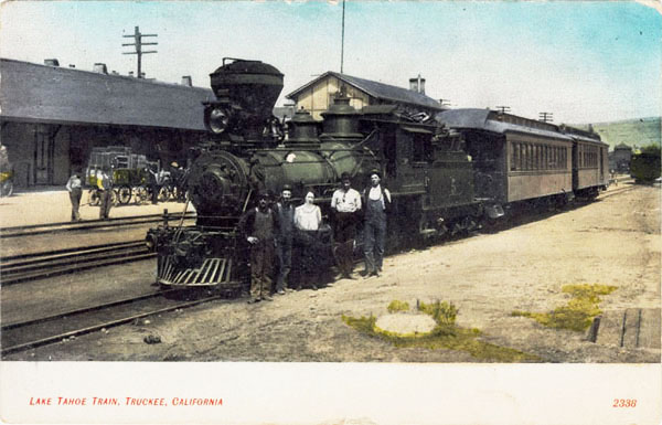 Courtesy Special Collections, University of Nevada-Reno Library. Lake Tahoe Railway and Transportation Company train at Truckee, California